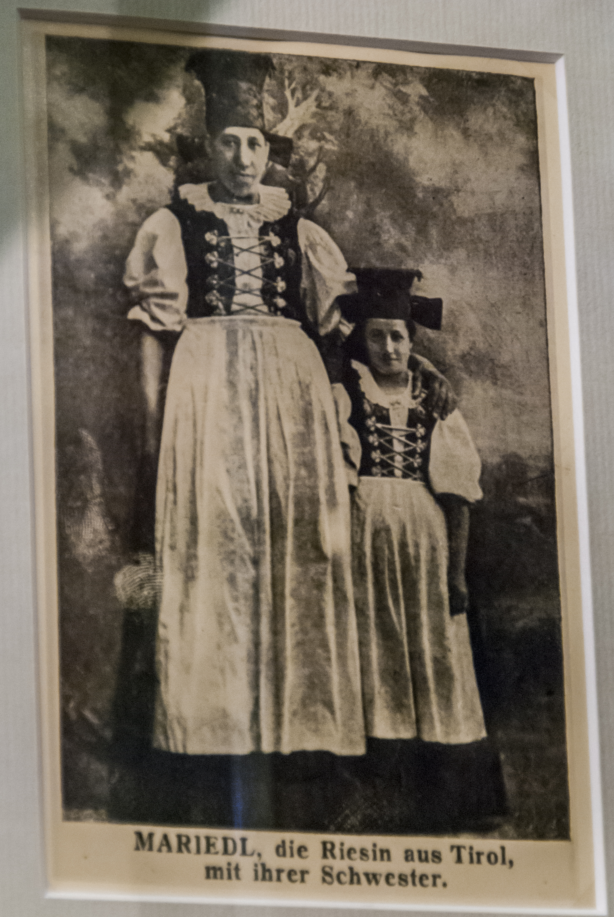 Mariedl the tyrolean giant in the Prader Museum in Vienna